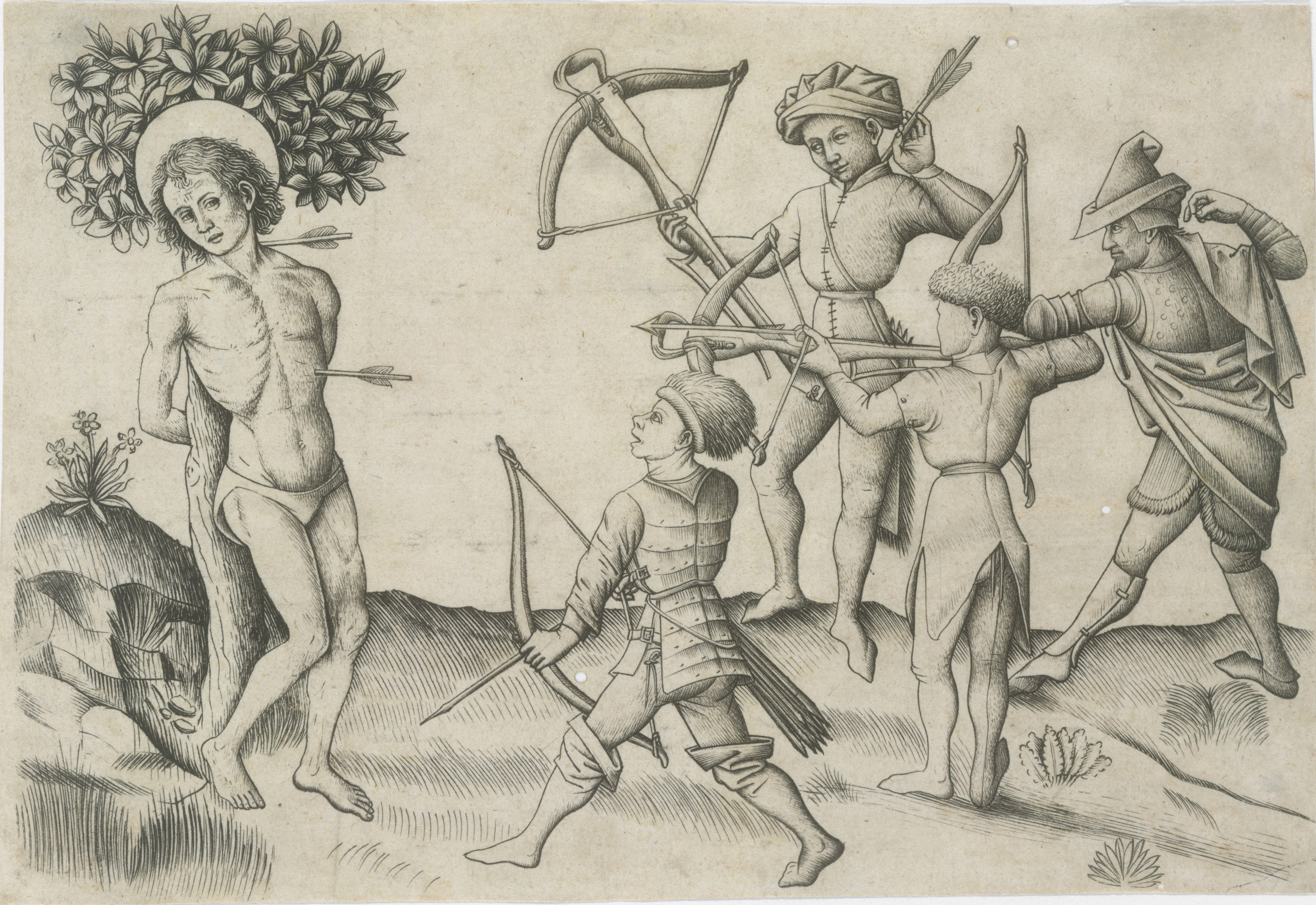 Martyrium des hl. Sebastian, Metropolitan Museum of Art, New York.